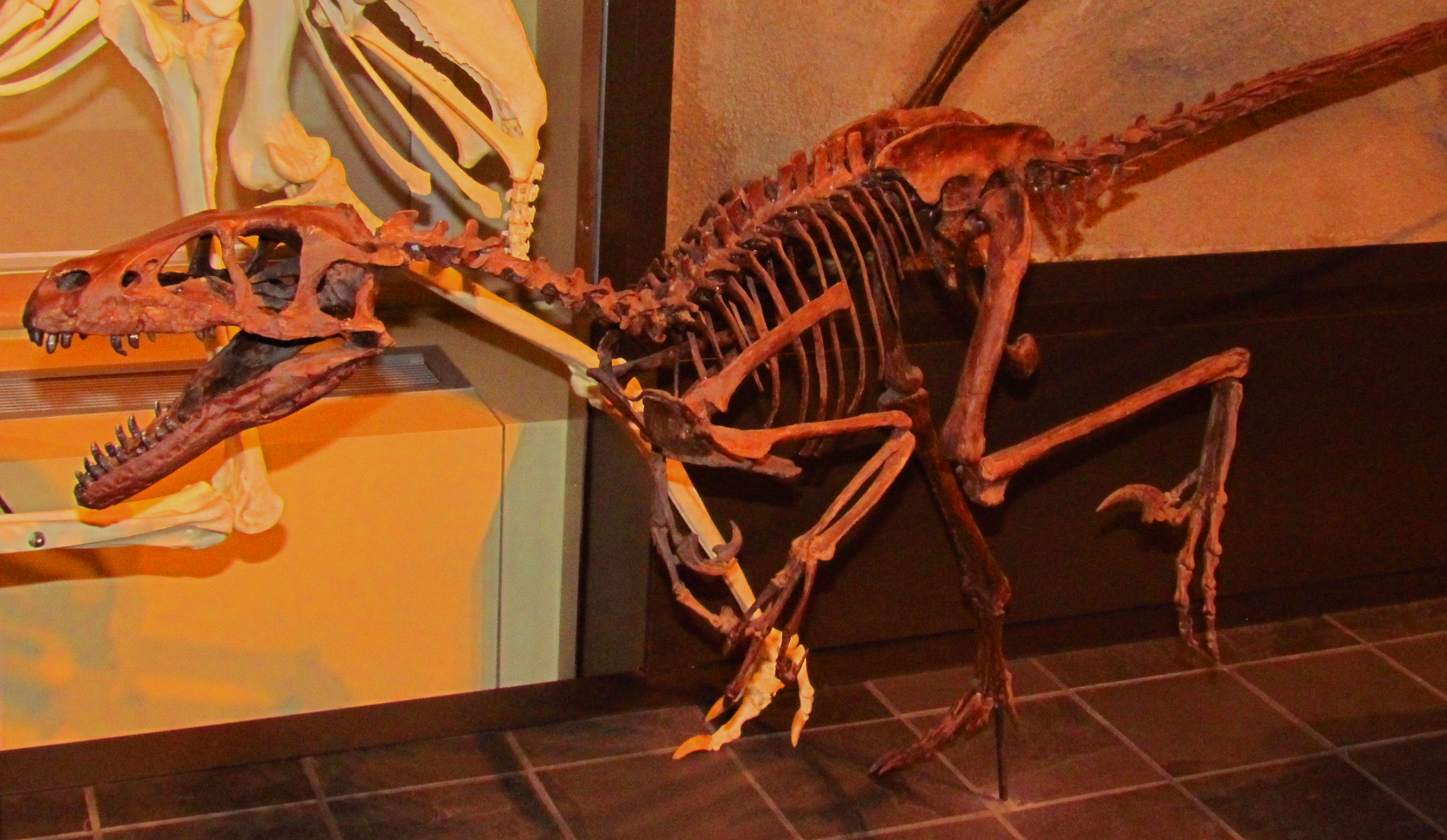 Dromaeosaurus albertensis, Canadian Museum of Nature, Ottawa, Ontario, Canada